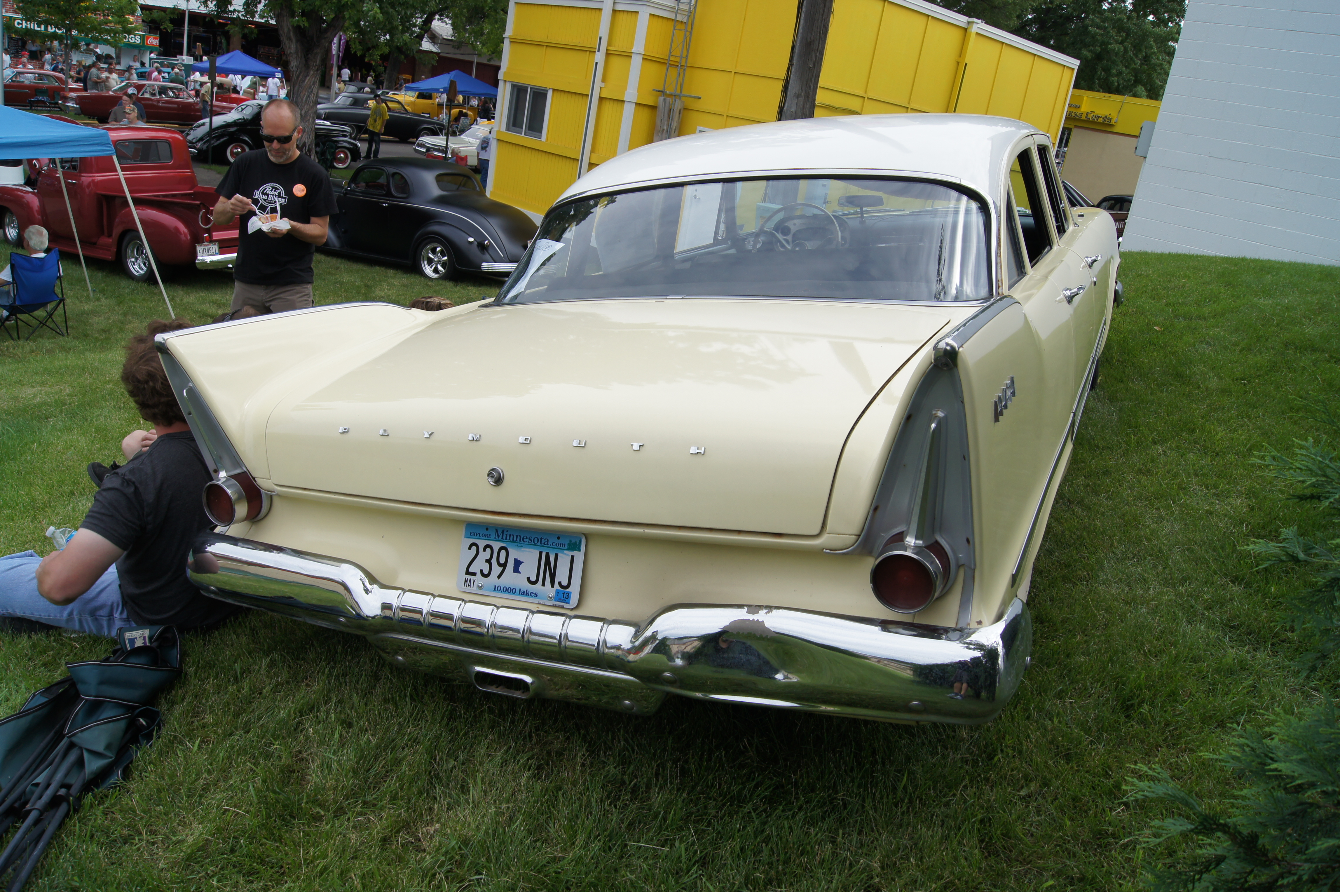 Minnesota Street Rod Association 39th Annual "Back to the Fifties" June 2012 Minnesota State Fairgrounds St. Paul MN